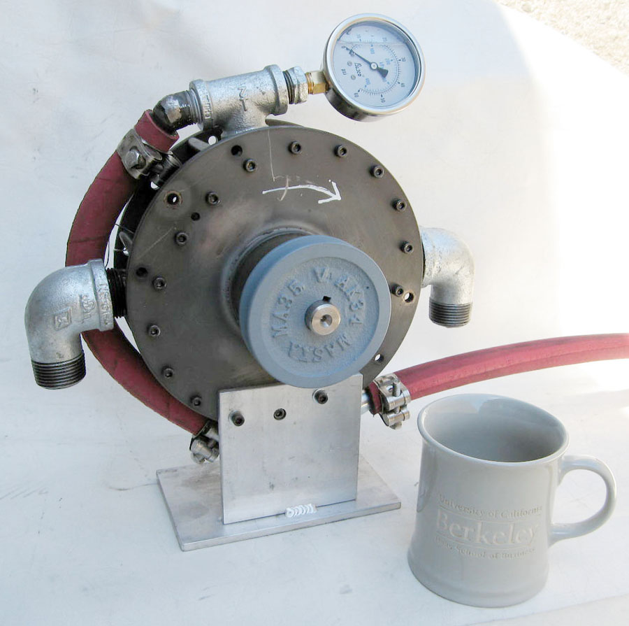 Picture of a Quasiturbine engine